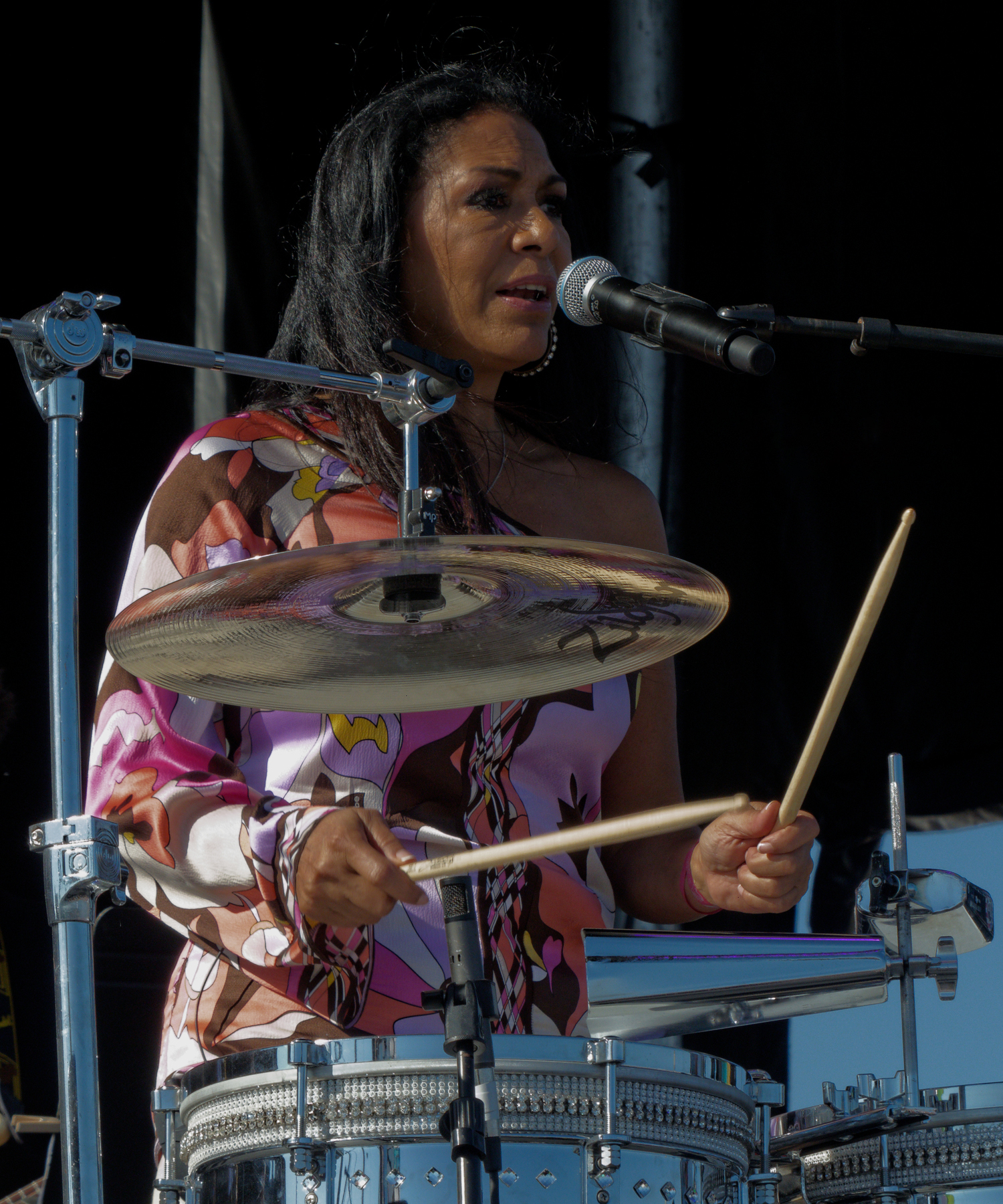 Sheila E. performing live at the Huntington Beach Food Art & Music Festival in Huntington Beach California on Saturday September 6th, 2014.